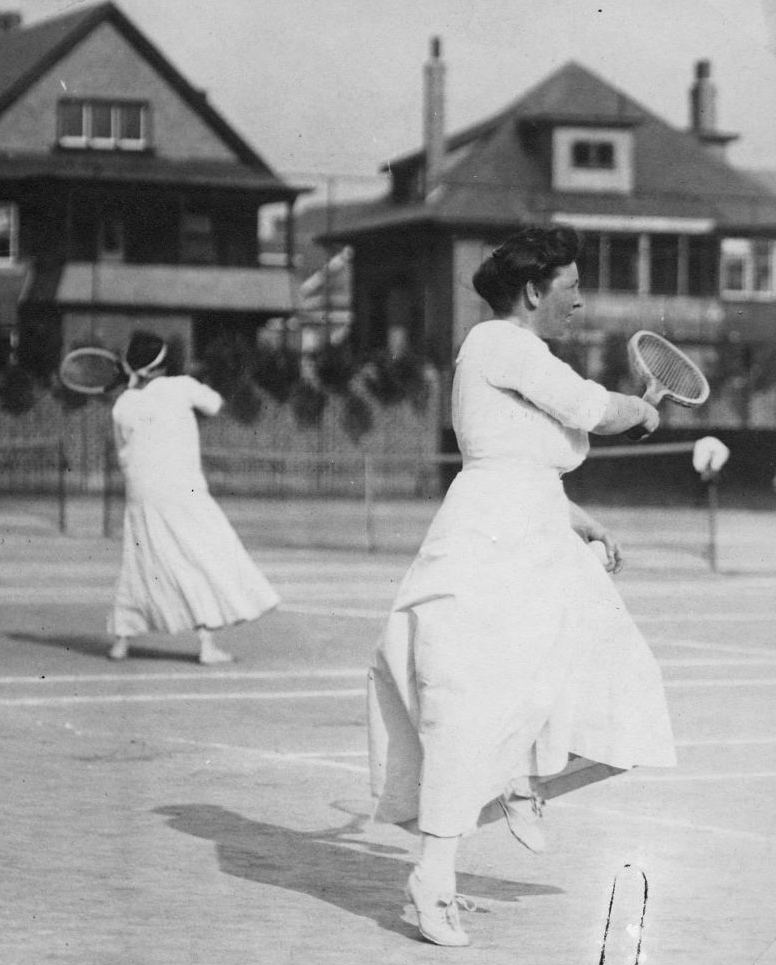 Violet Summerhayes died 1974 Fonds 1244; William James family fonds